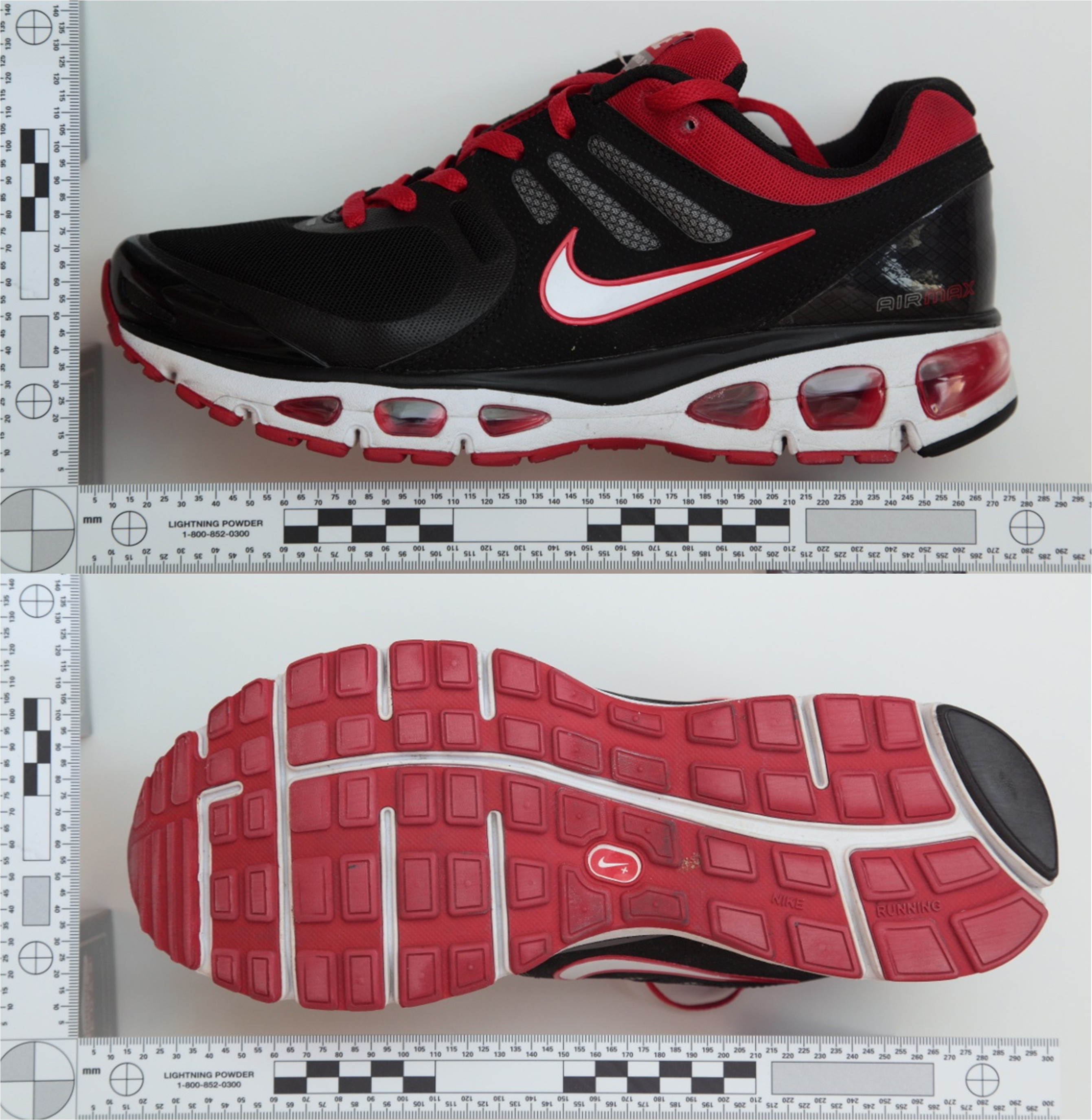 Photos of a suspects footwear.